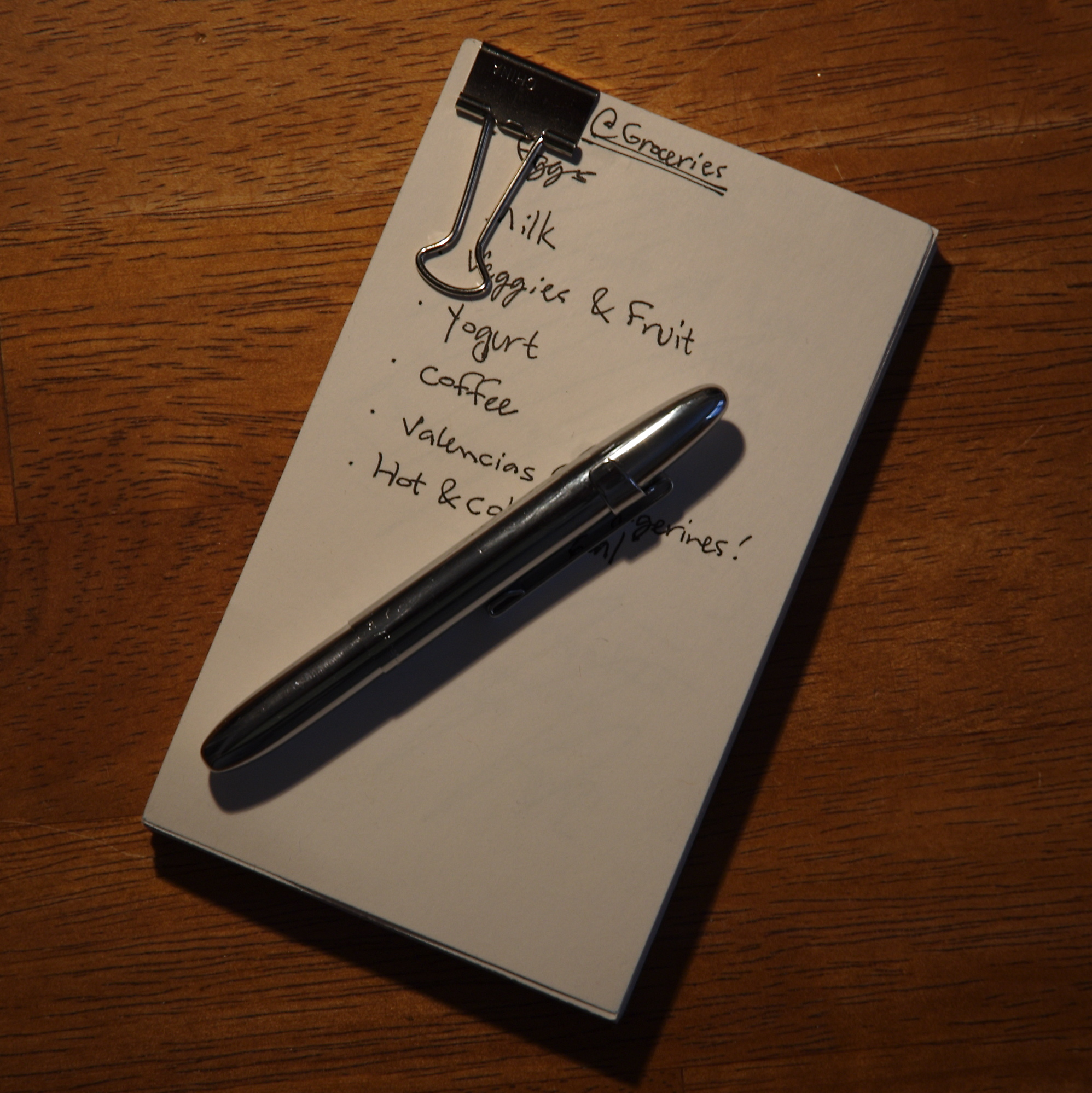 My New Hipster PDA with the Spacepen